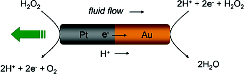 AuPt nanomotor